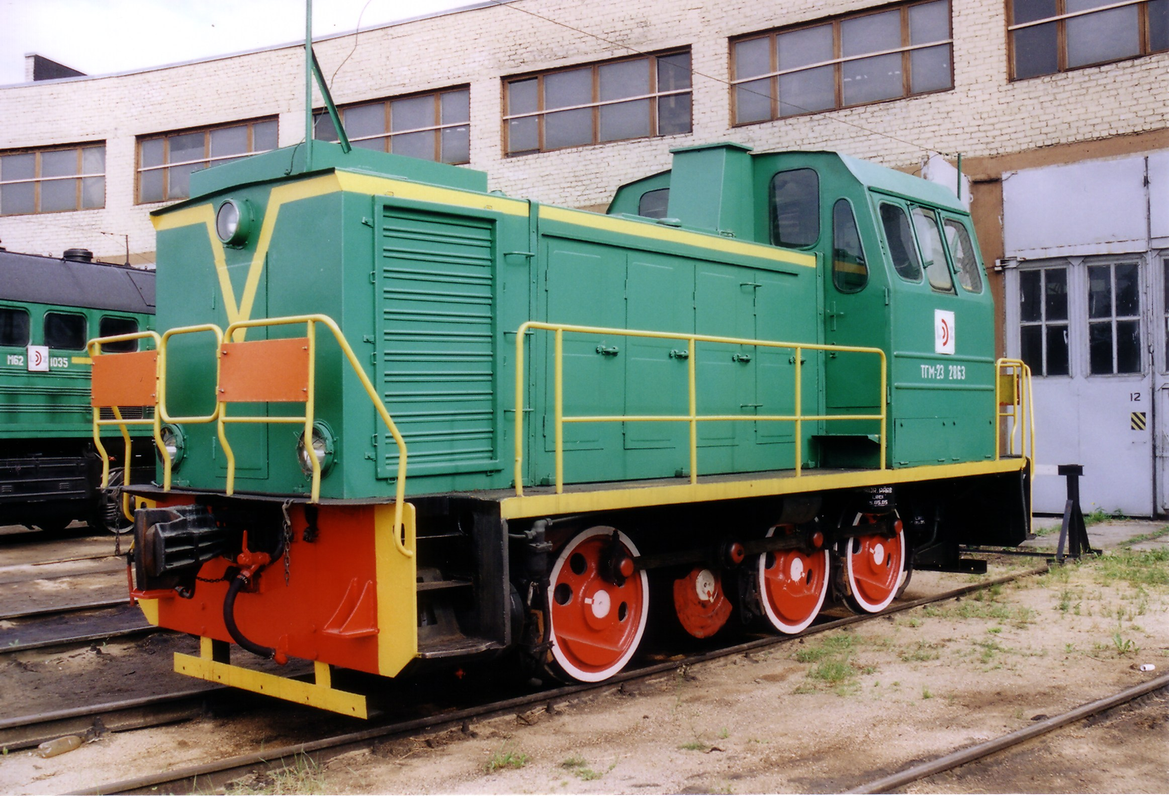 A small diesel shunter in Riga A small diesel shunter in Riga